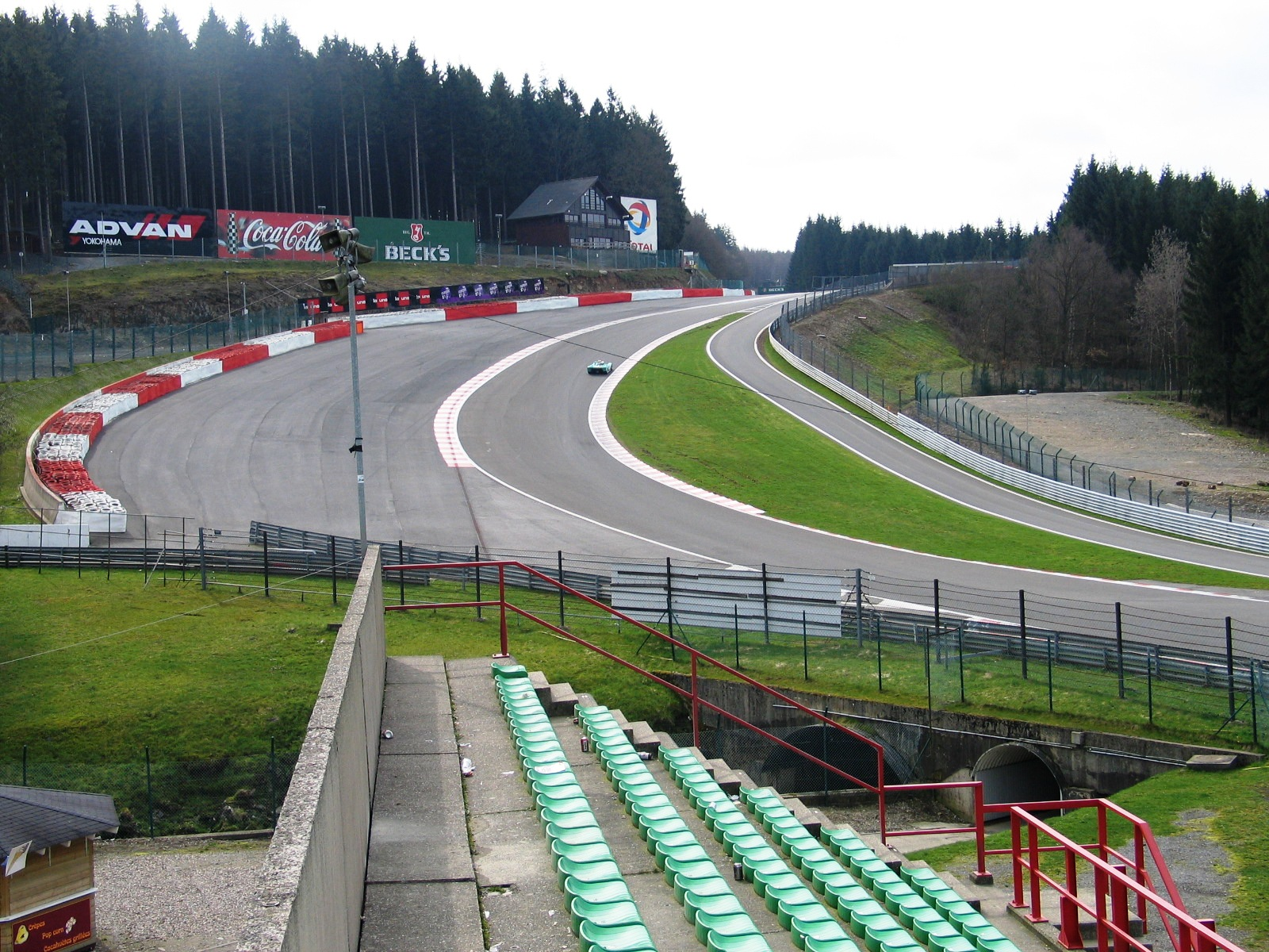 Raidillon - eigen foto Dit is raidillon - Eau Rouge ([1])